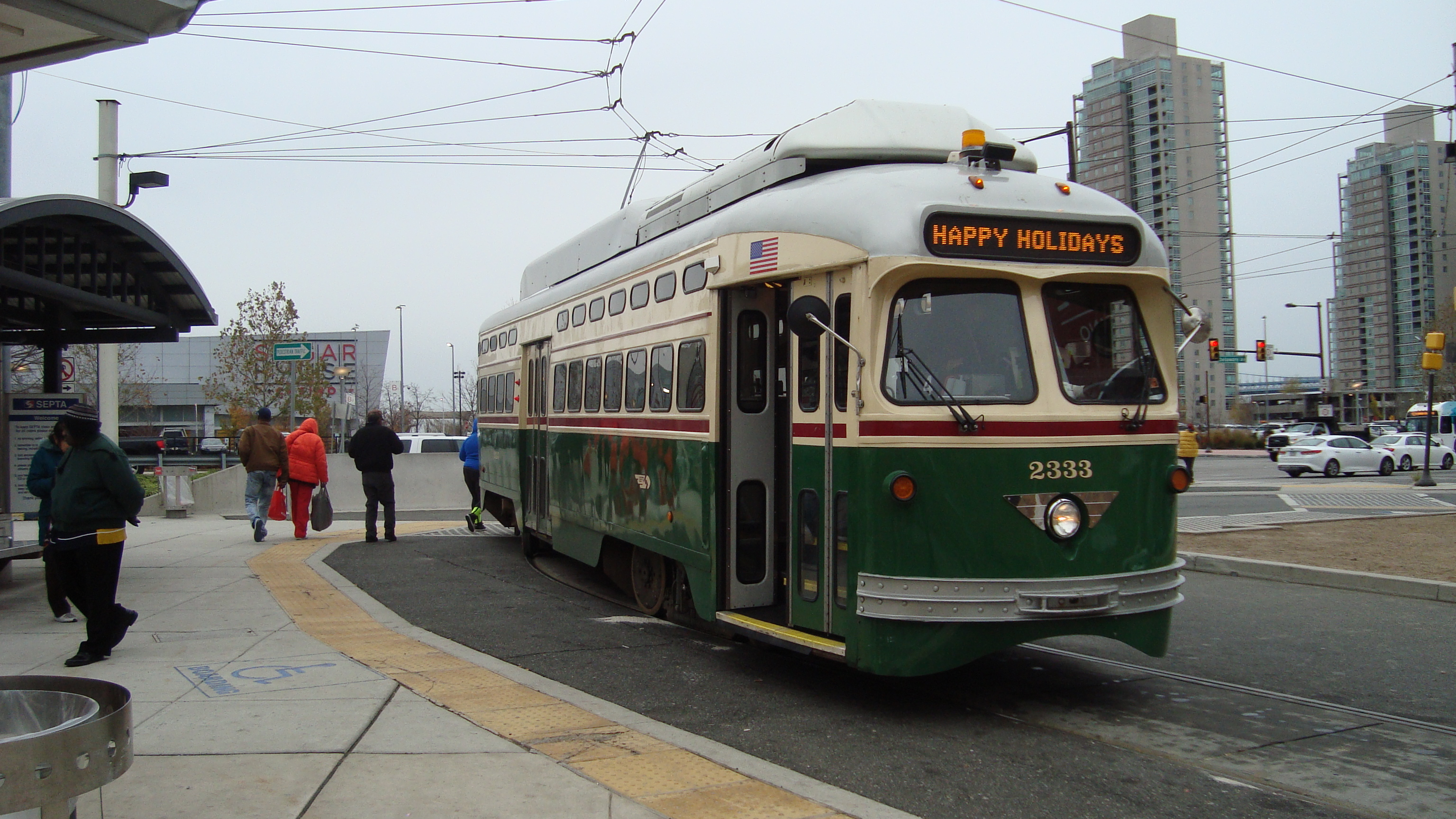 Fishtown